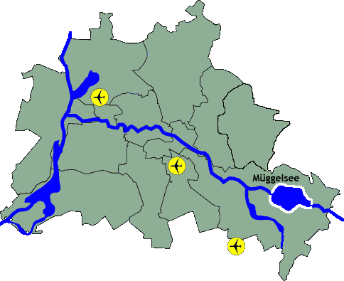 location of Müggelsee in Berlin. image based on Image:Lage Bezirke in Berlin.png